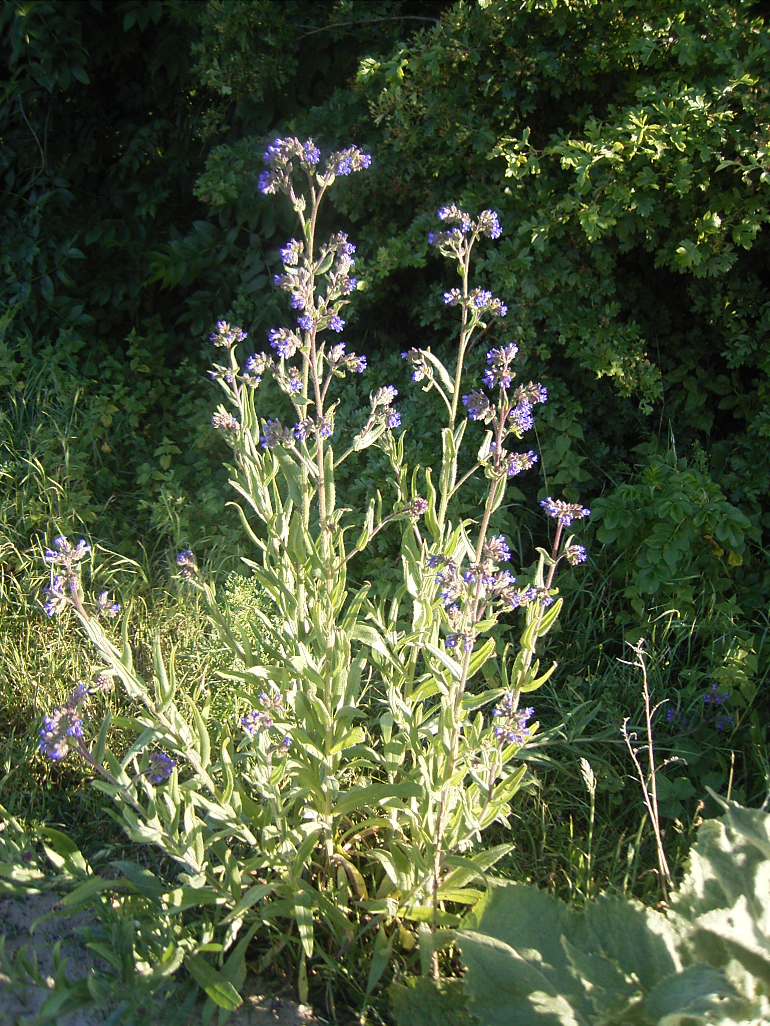 This photo shows anchusa officinalis